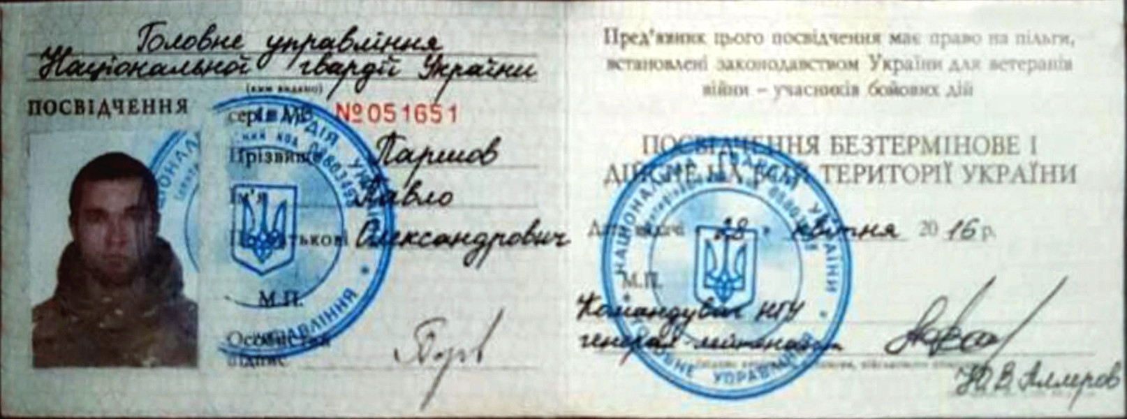 Pavel Parshov's ID issued by the National Guard of Ukraine.